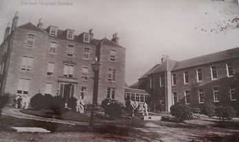 Old postcard of Eastern Hospital, Dundee